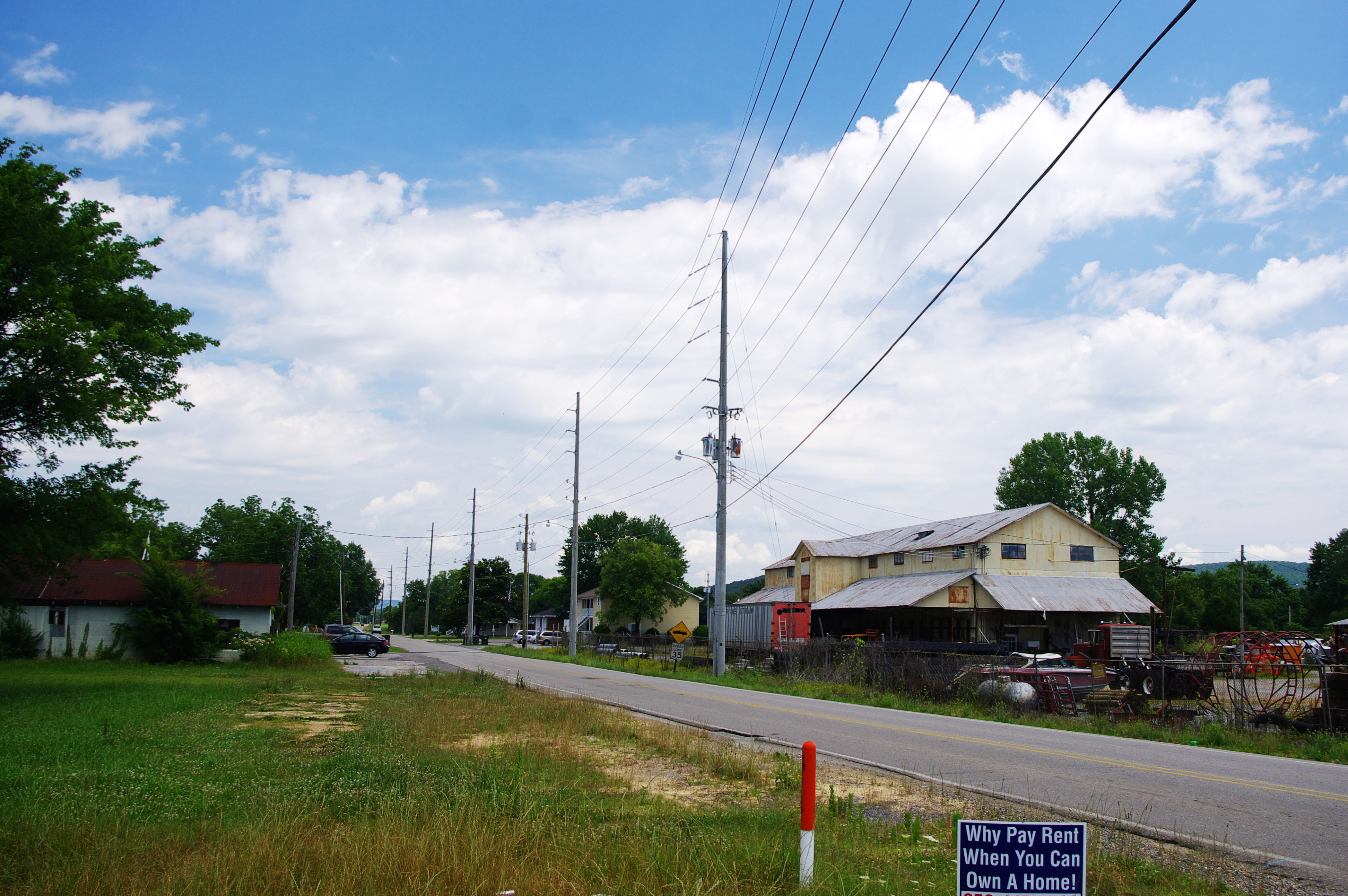 Businesses along Old Highway 431 (County Road 28) in Owens Cross Roads, Alabama, United States.